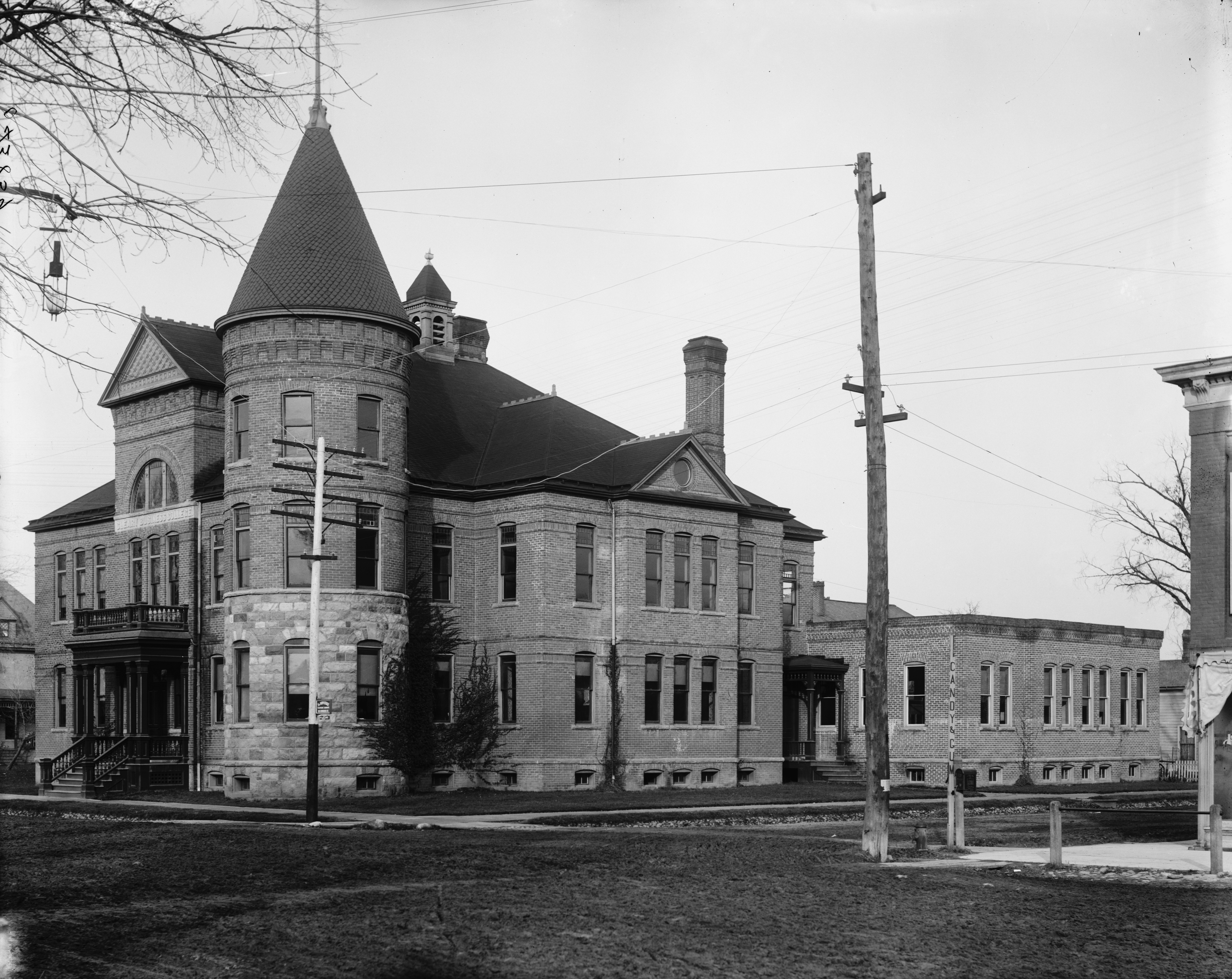 Photograph of Cleary Business College, Ypsilanti, Michigan.